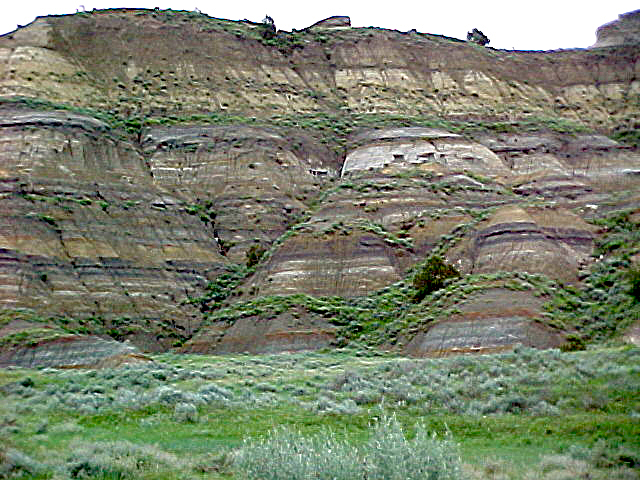 A slumping tilted strata rock formation — within Theodore Roosevelt National Park, in North Dakota. The tilted mounds in slump formations formed when the streams that cut into the cliffs over-steepened them. Heavy Moisture led to land slides of blocks of overhanging earth. Thus the slumps retained their original layering sequence.